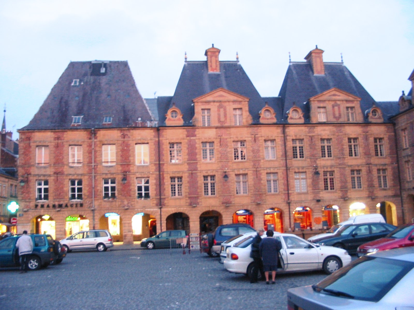 Charleville Mezieres, Place Ducale (marketplace)